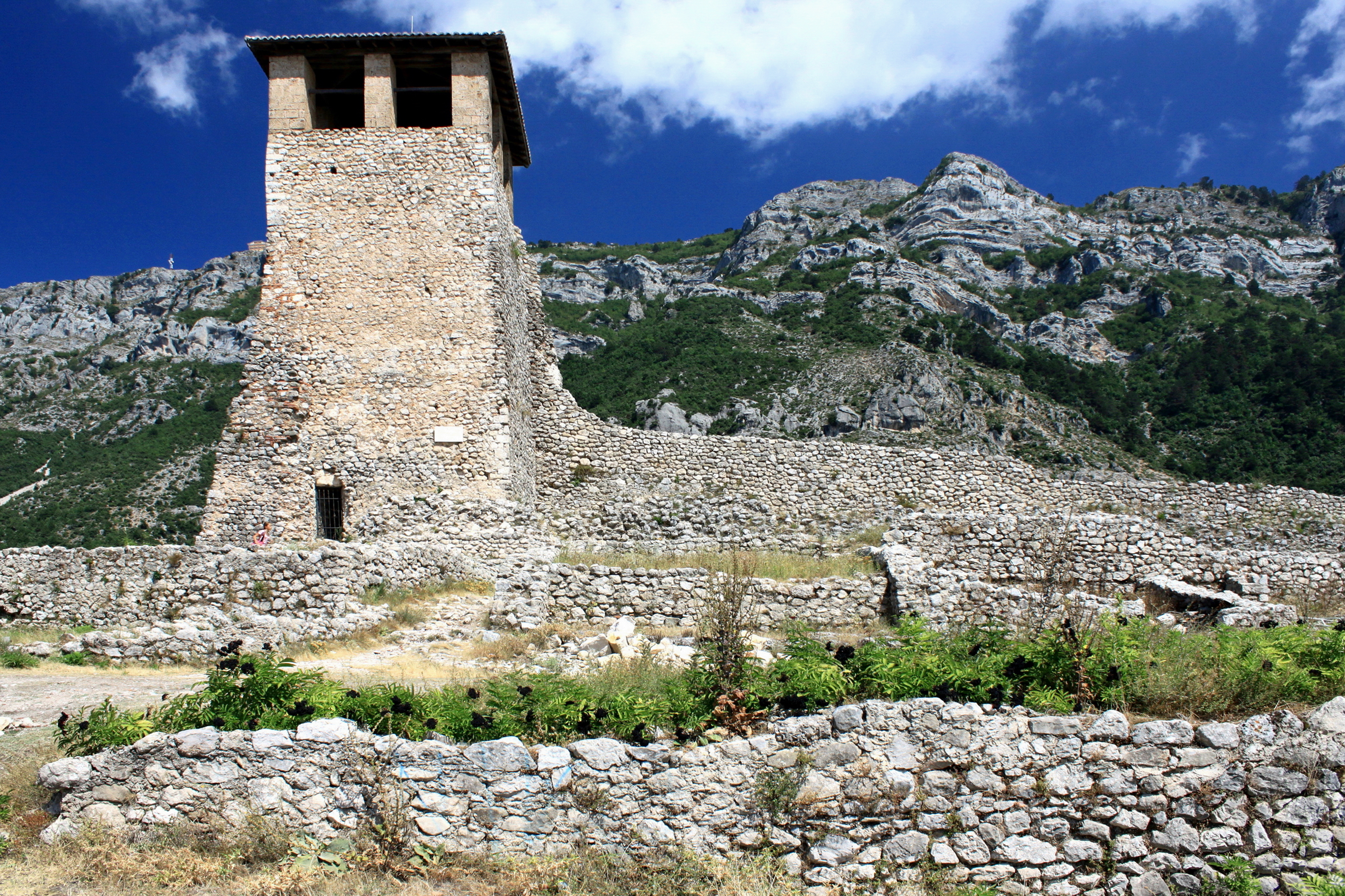 Tower in the Castle, Krujë, AlbaniaShqip: Kulla në Kala, Kruja, Shqipëria